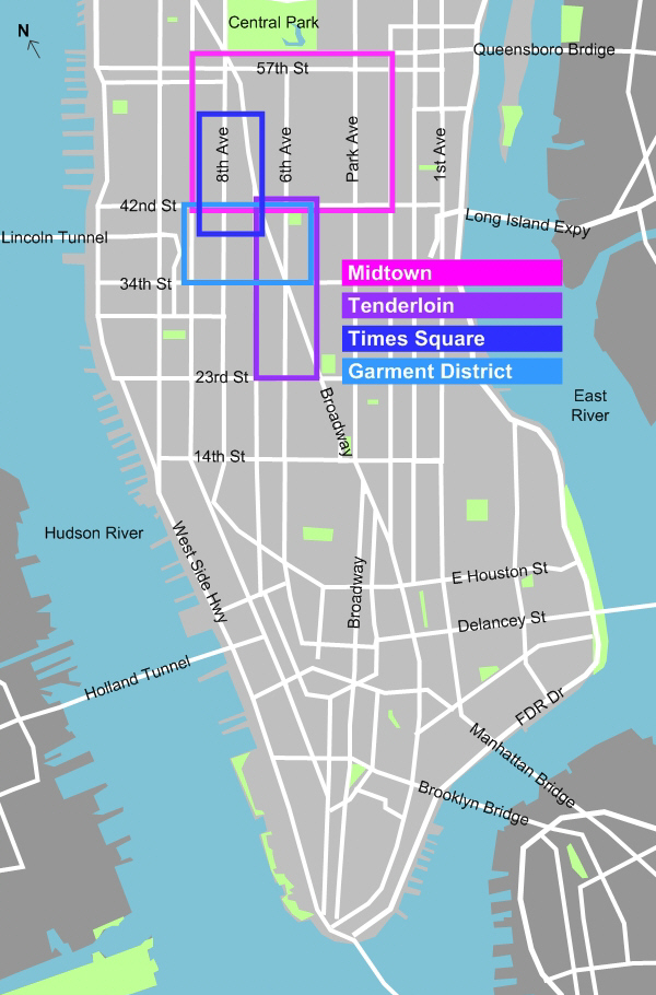 Map of Midtown Manhattan, Theater District = Times Square, and Garment District